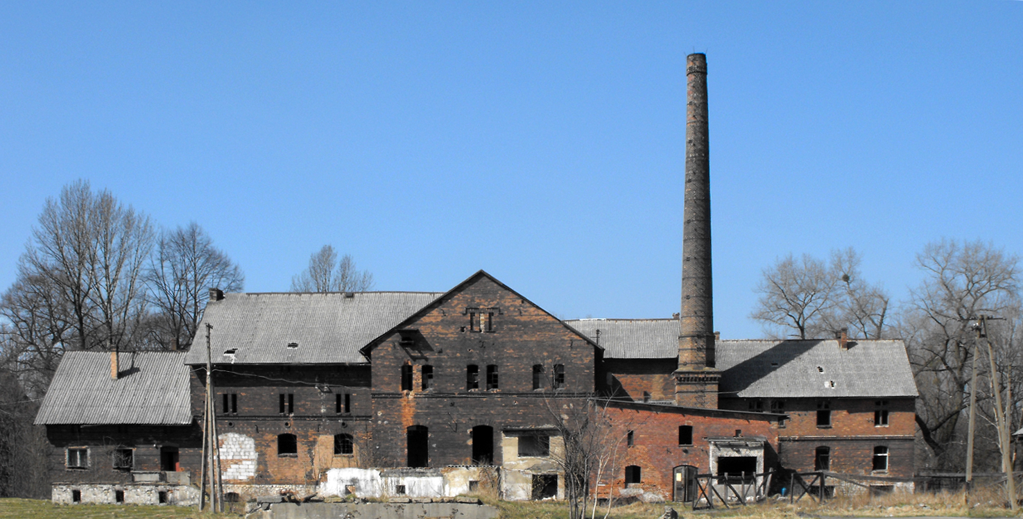 Old distillery in Mikulczyce